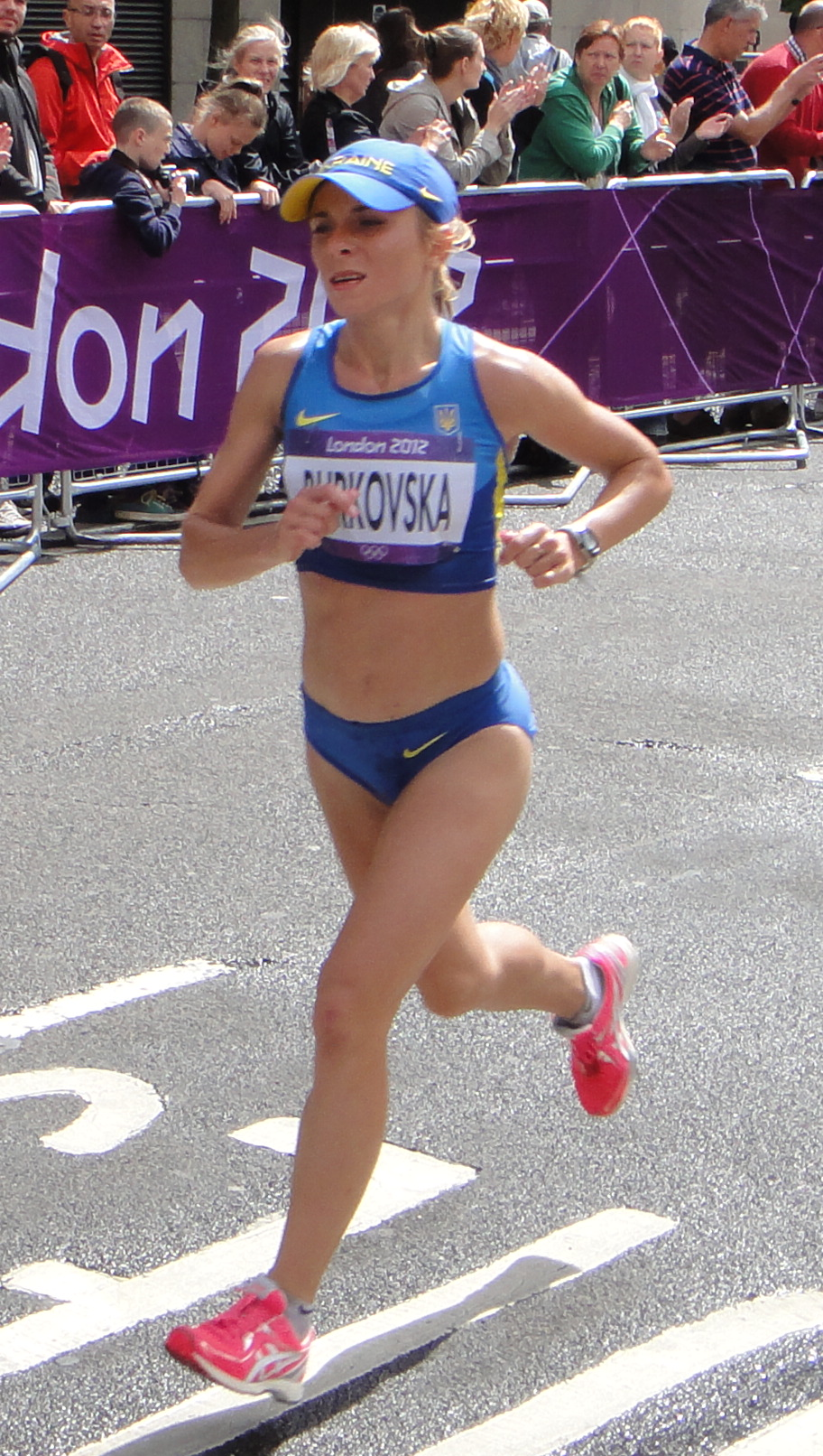 Olena Burkovska (Ukraine) Lidia Simon (Romania) - London 2012 Women's Marathon